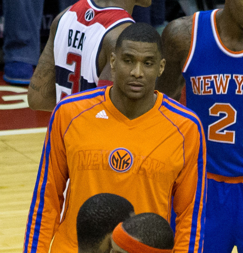 James White, New York Knicks at Washington Wizards March 1, 2013